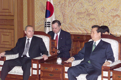 THE BLUE HOUSE, SEOUL. President Putin with South Korean President Kim Dae-jung.